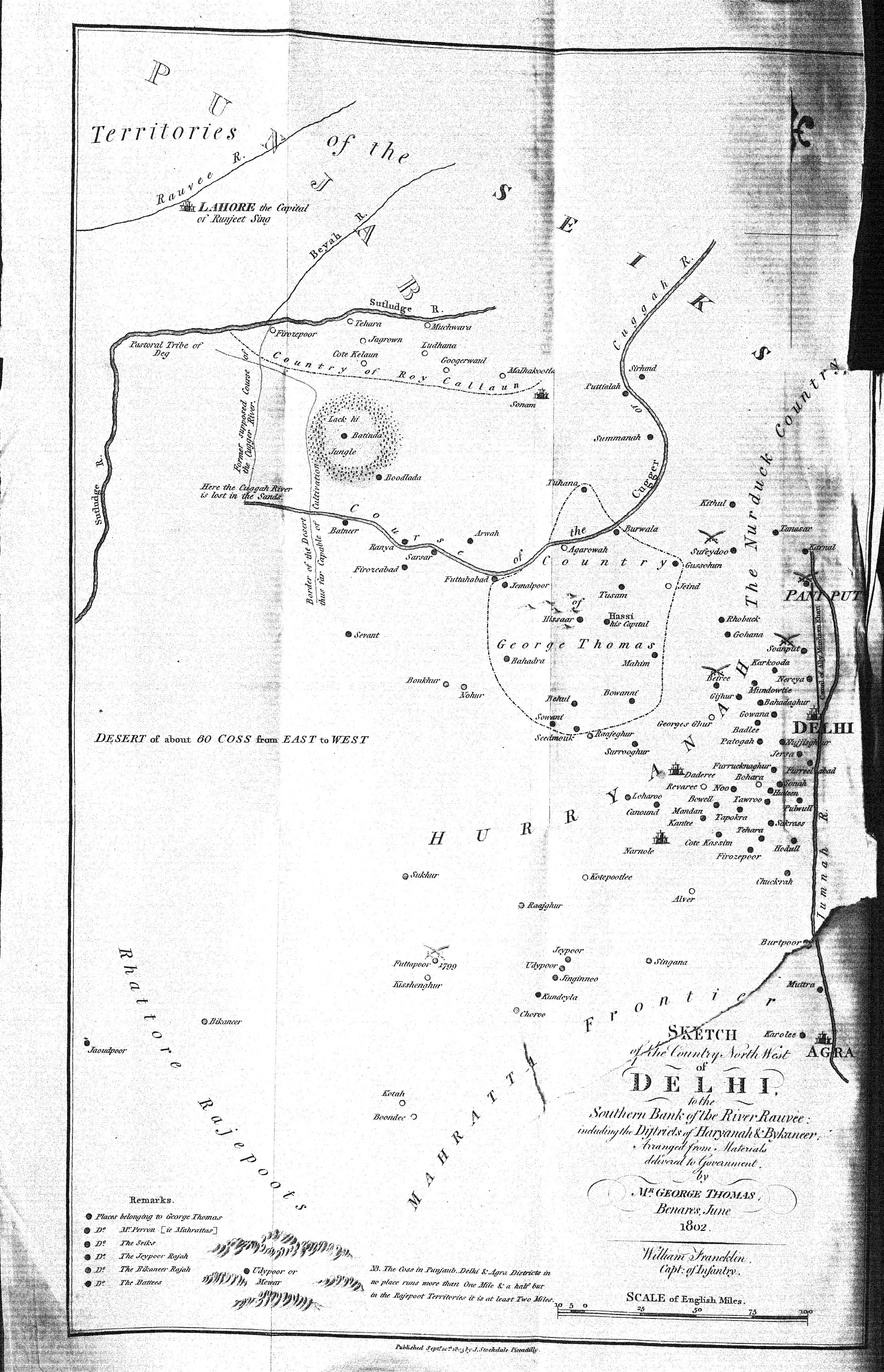 Country of George Thomas, Haryana